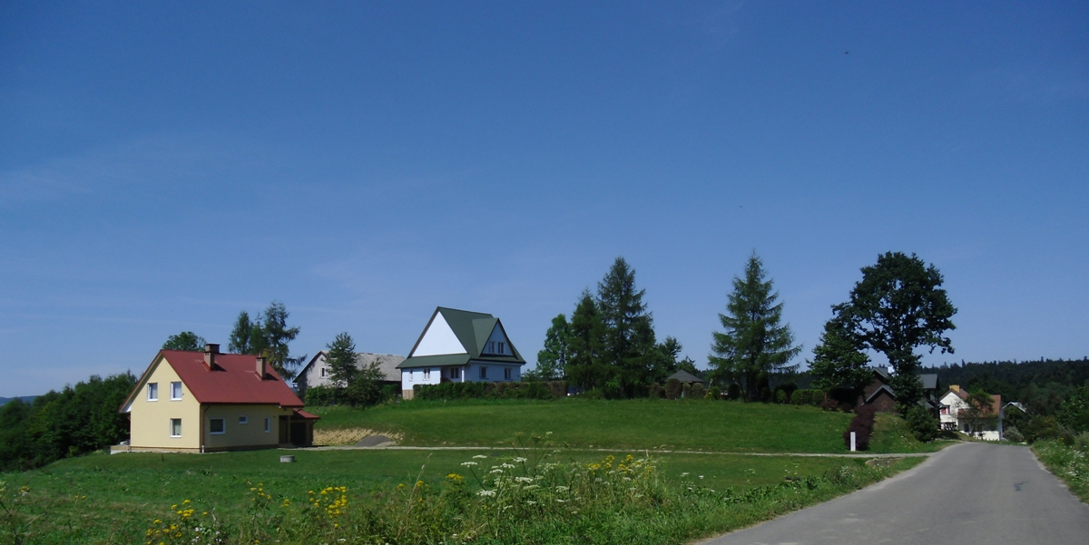 Glinne is a village in the administrative district of Gmina Lesko, within Lesko County, Subcarpathian Voivodeship